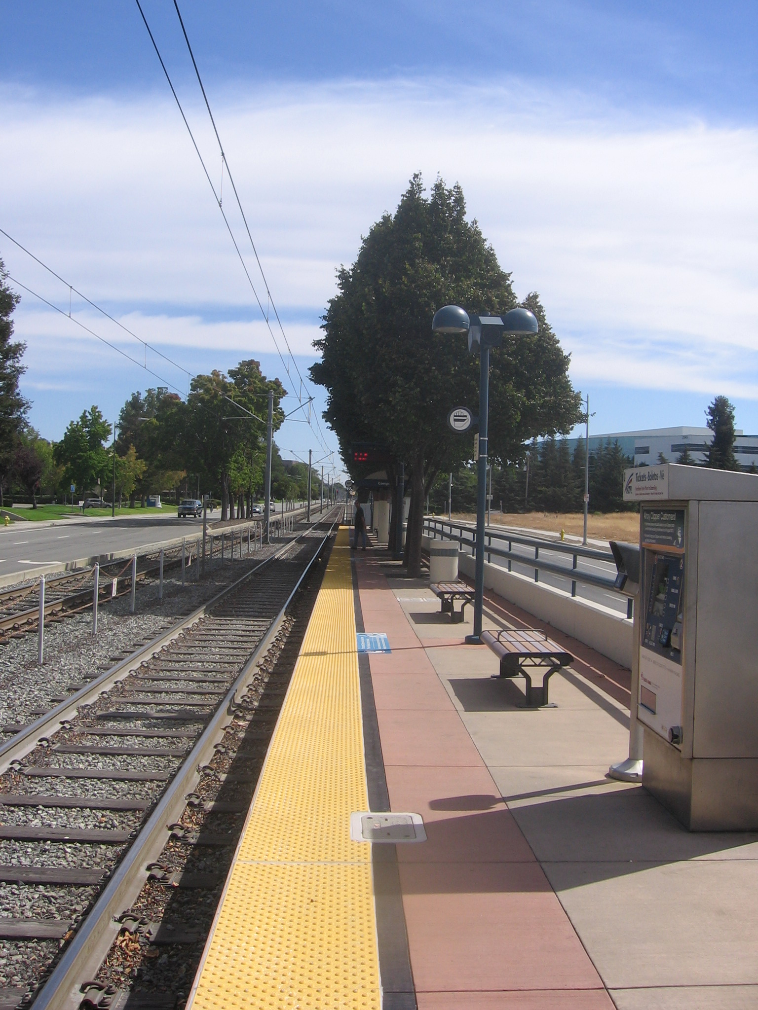 The Component (VTA) light rail station in San José, California, USA.